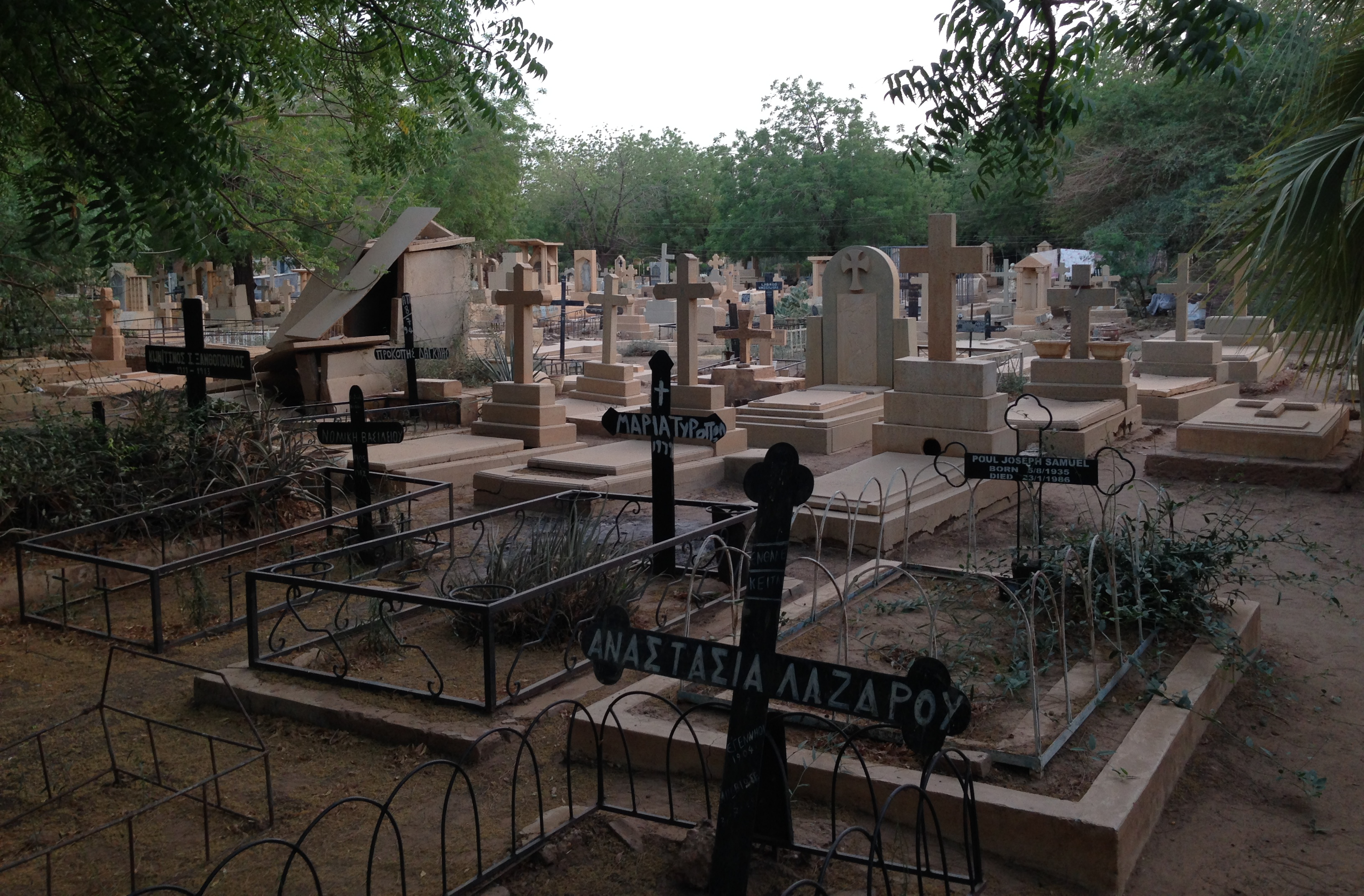 The Greek section of the Christian cemetery in Khartoum, Sudan